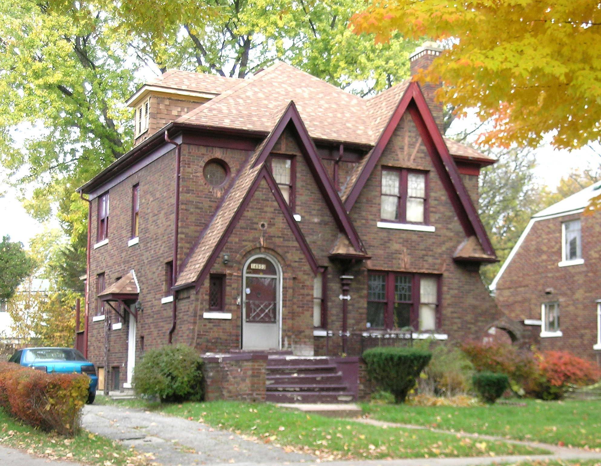 House on Glastonbury in Rosedale Park Historic District Detroit